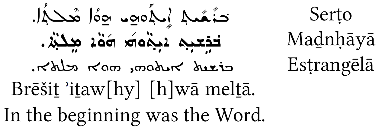 The three main varients of the Syriac alphabet showing the opening words of John's Gospel — 'Brēšîṯ îṯau-wâ Melṯâ', 'In the beginning was the Word'